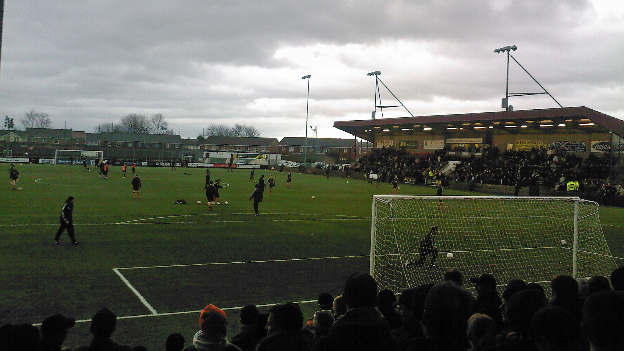 Dundee United players warming up before the Scottish Cup fourth round match against East Stirling at Ochilview on 11 January 2009